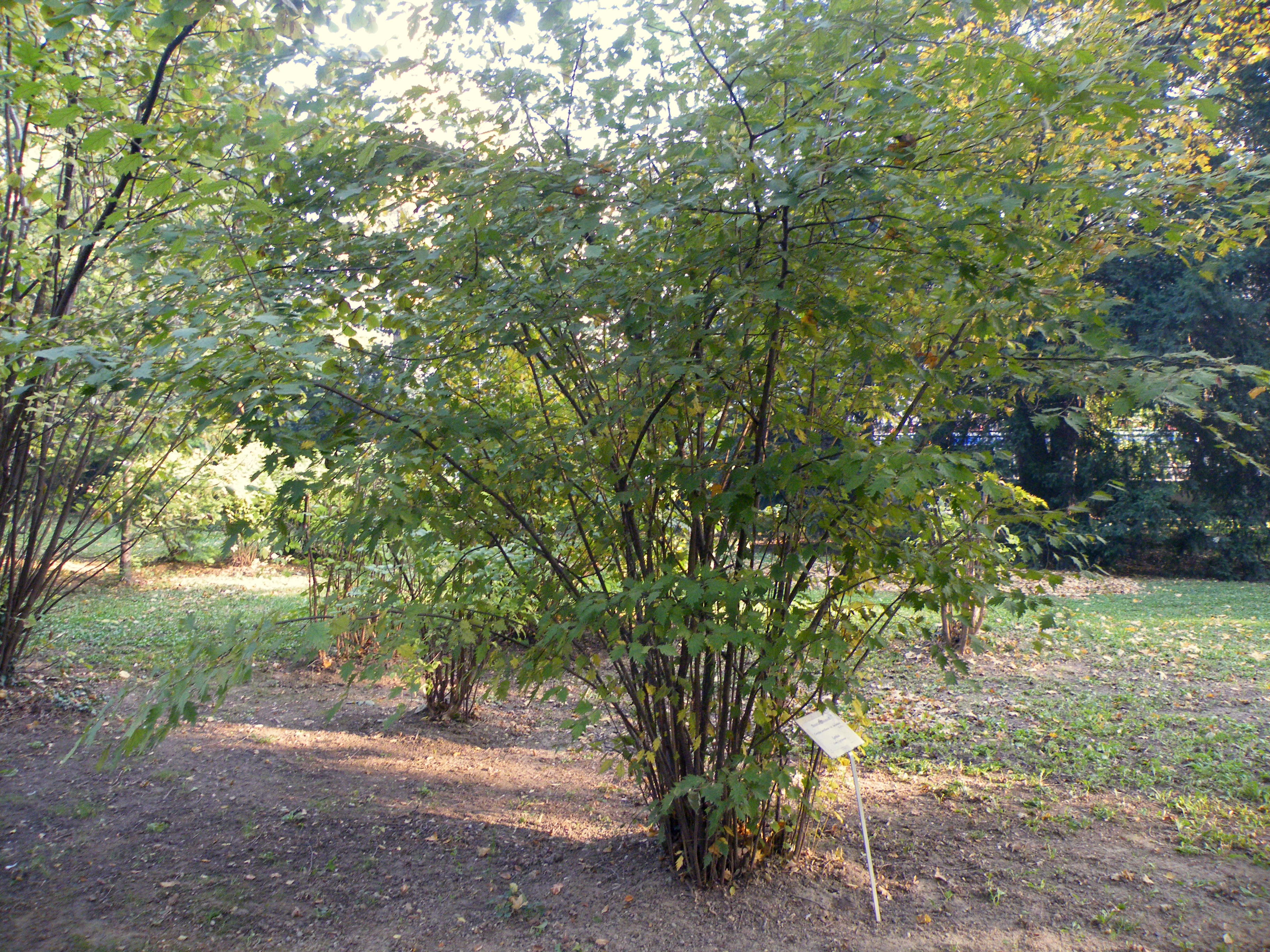 Common hazel is typically a shrub reaching 3–8 m tall, but can reach 15 m. This media file is produced by Wikipedian in Residence in Botanical Garden Jevremovac in 2015.